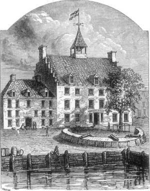 "The Old Stadt Huys of New Amsterdam"